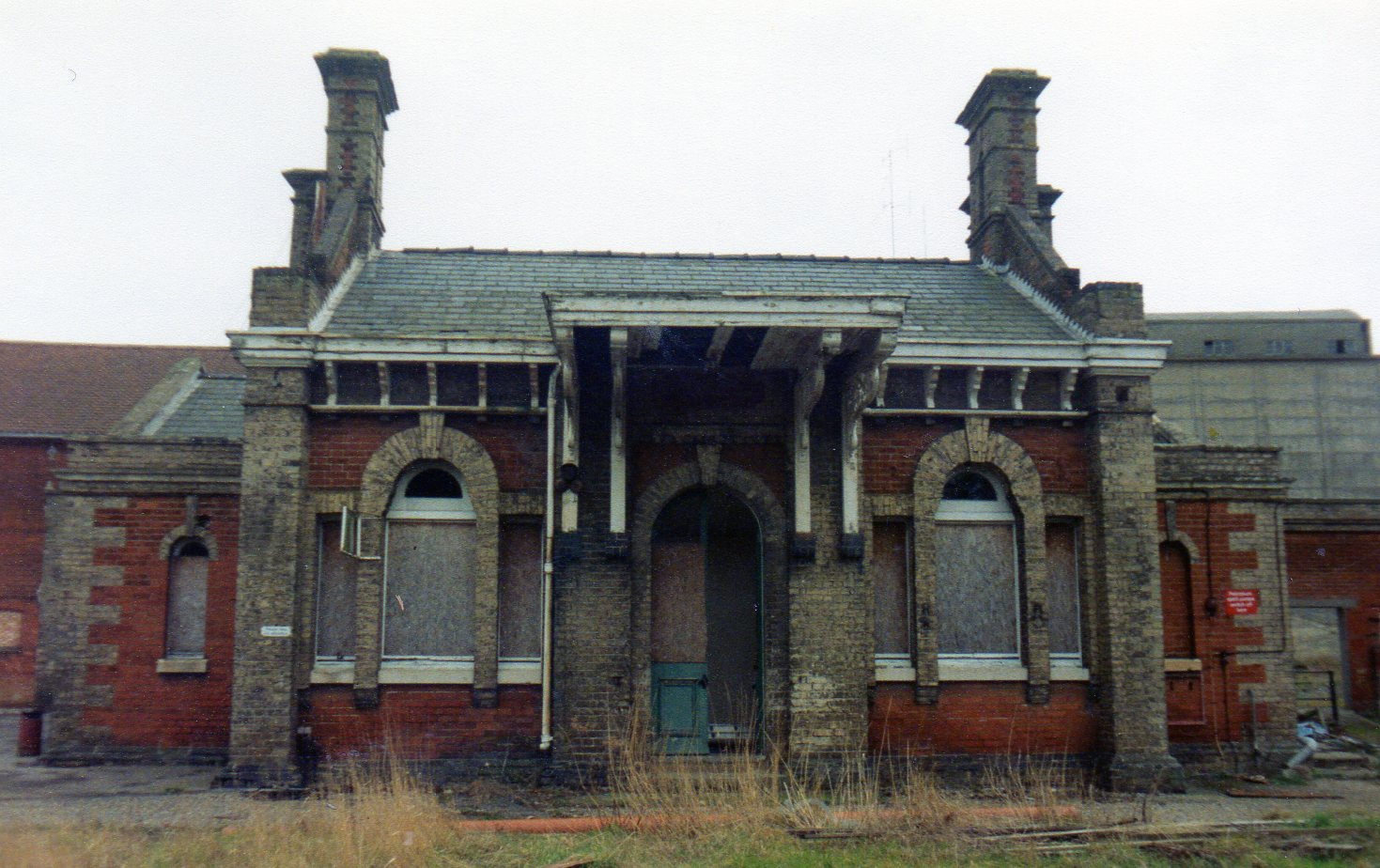 March 1995 view of the long closed Hadleigh railway station (Suffolk).